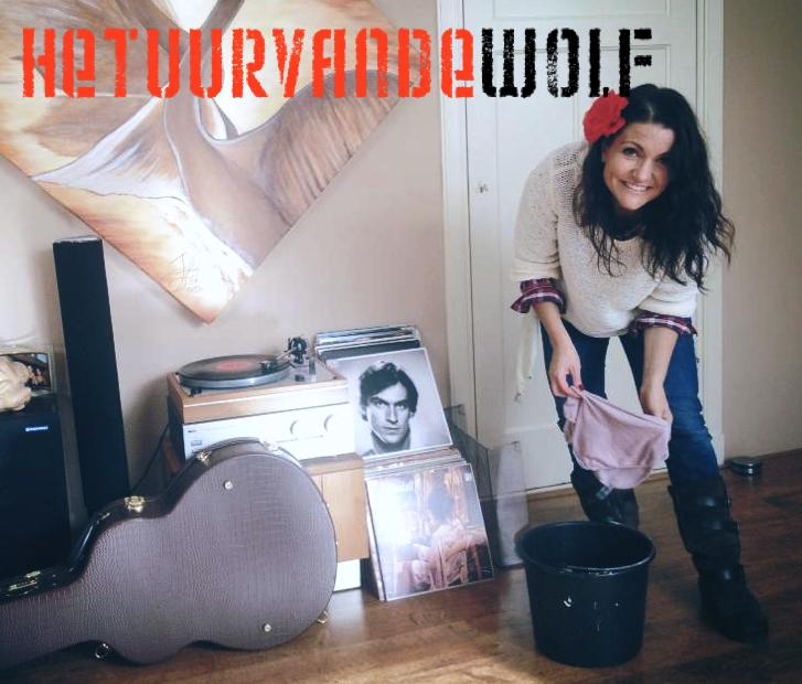 Text logo HET UUR VAN DE WOLF with musical context